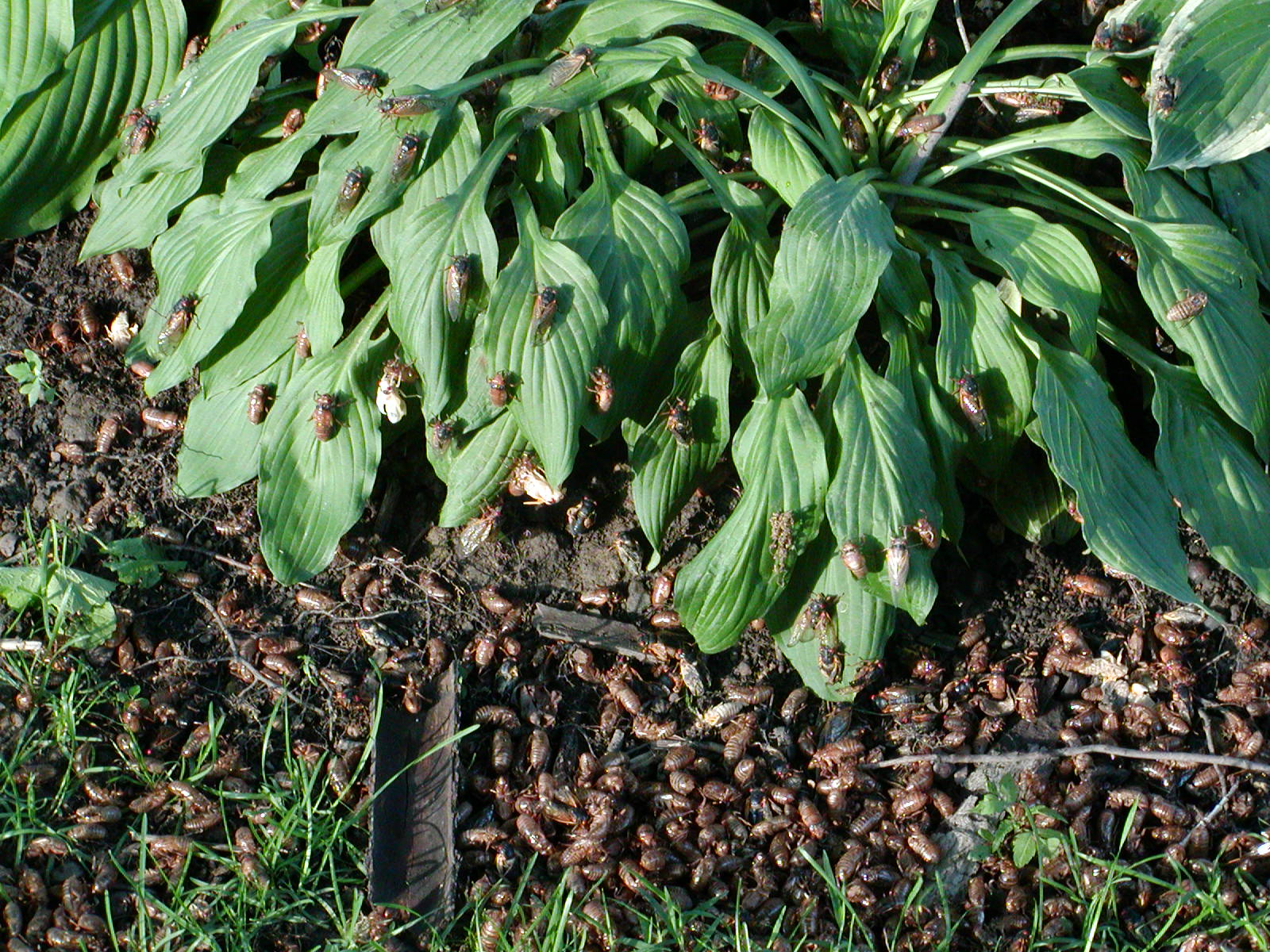 Emergent swarm of 17 year locust in 2004.